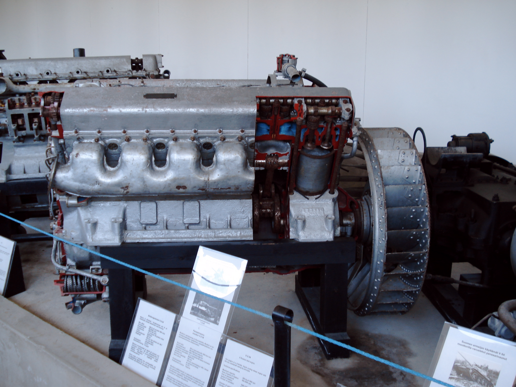 Engine (V-2-34) of Soviet T-34 tank displayed in Finnish Tank Museum (Panssarimuseo) in Parola. Some parts have been removed or cut to show the inner workings. Photo taken on July 14, 2006. Source: Photo by me, User:Balcer.